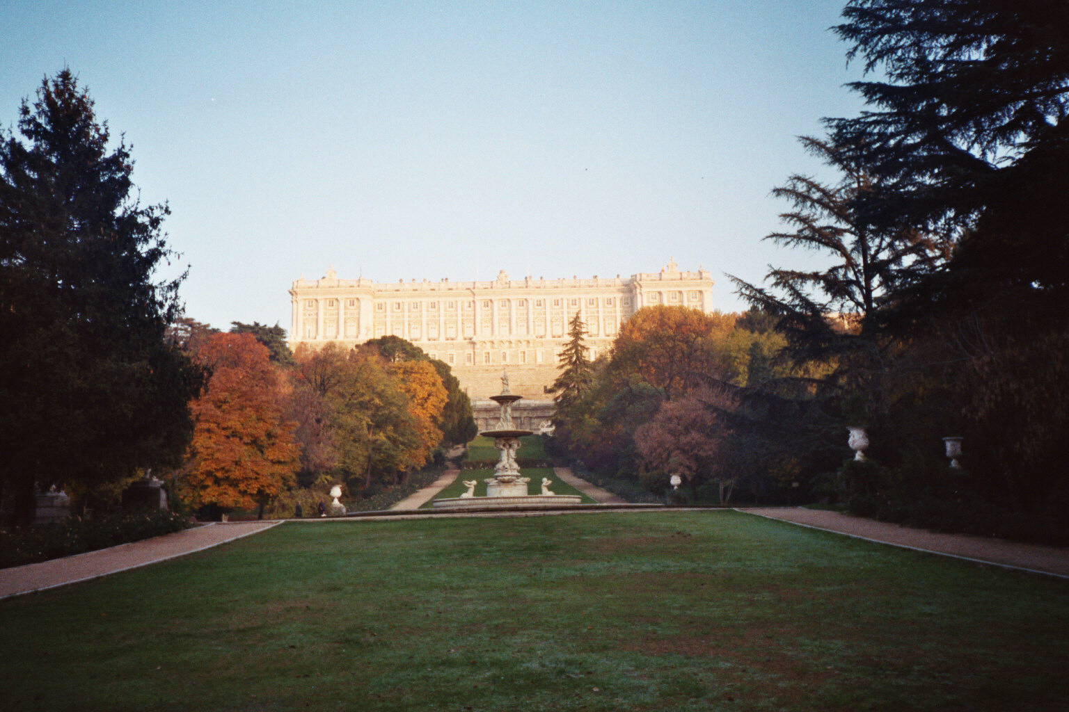 Description: The Campo del Moro, close to the Palacio Real de Madrid. Source: self-made, I release it into the public domain.